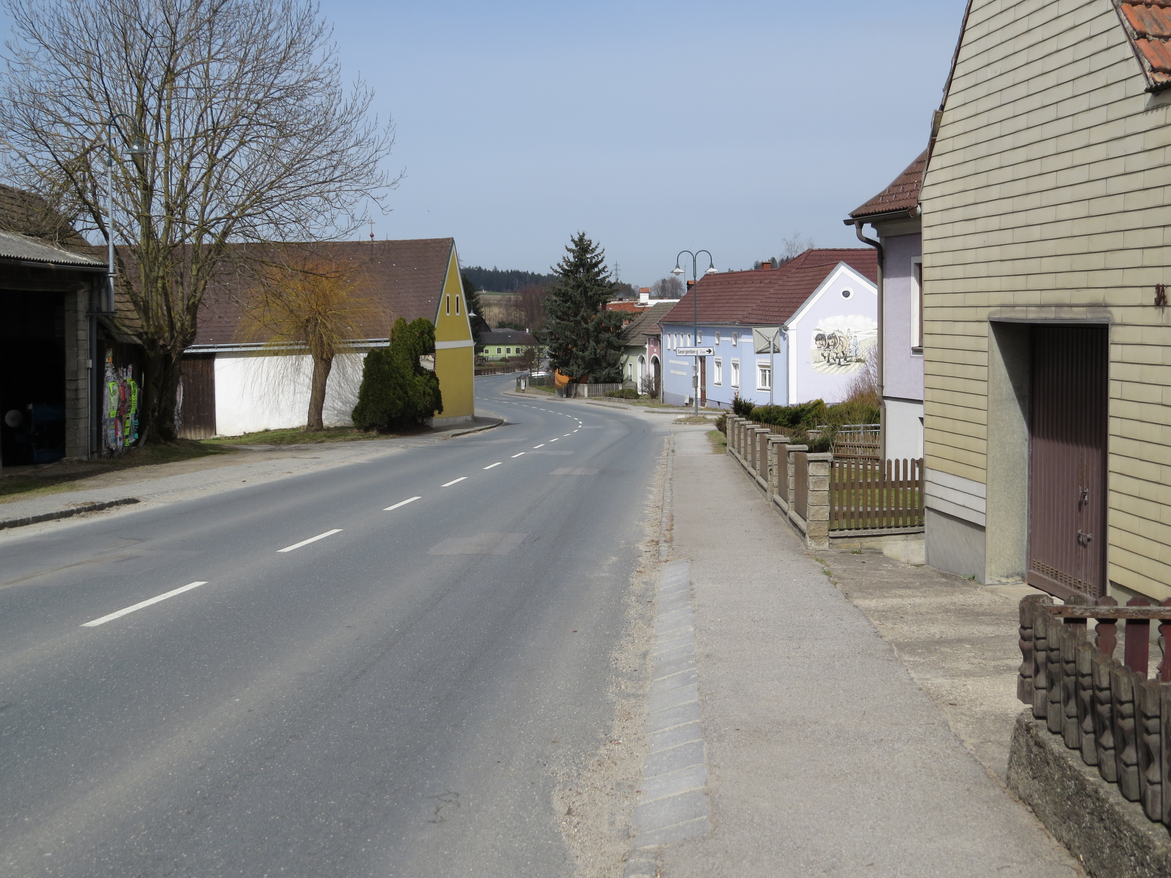 Waidhofener Straße in Weinpolz